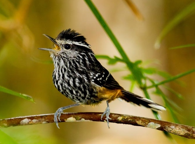 Drymophila ochropyga at Serra das Andorinhas (Iporanga, Sao Paulo, Brazil)